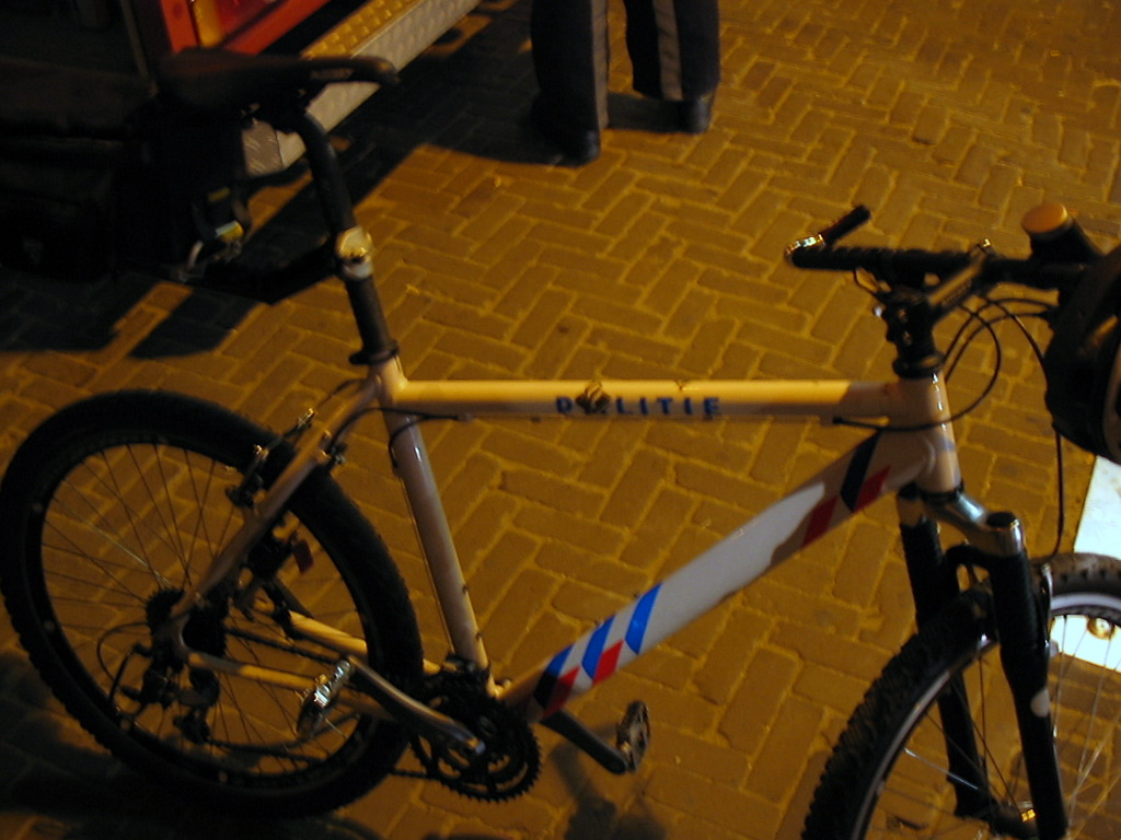 Police bicycle in Den Haag